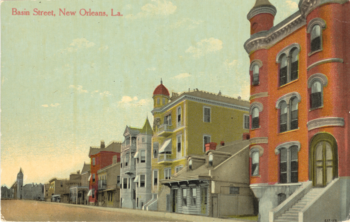 New Orleans: "Basin Street Up the Line".Early 20th century postcard view of the high-rent section of the "Storyville" Red light district. Block of visible buildings includes from left to right Tom Anderson's Saloon (with pillared sidewalk gallery), the brothels of Hilma Burt, Diana & Norma, Lisette Smith, Minnie White, Josie Arlington (with rounded cupola), Martha Clarke (smaller older building) and Lulu White's Mahogany Hall is closest building at right.